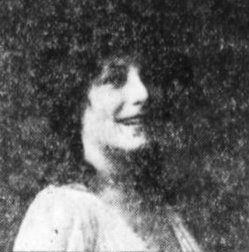 Newspaper photograph of silent film actress Beatriz Michelena, appearing at the top of her regular advice column entitled "Talks with Screen-struck Girls". This image appeared May 14, 1916 in the Prescott Miner-Dealer, an Arizona newspaper.